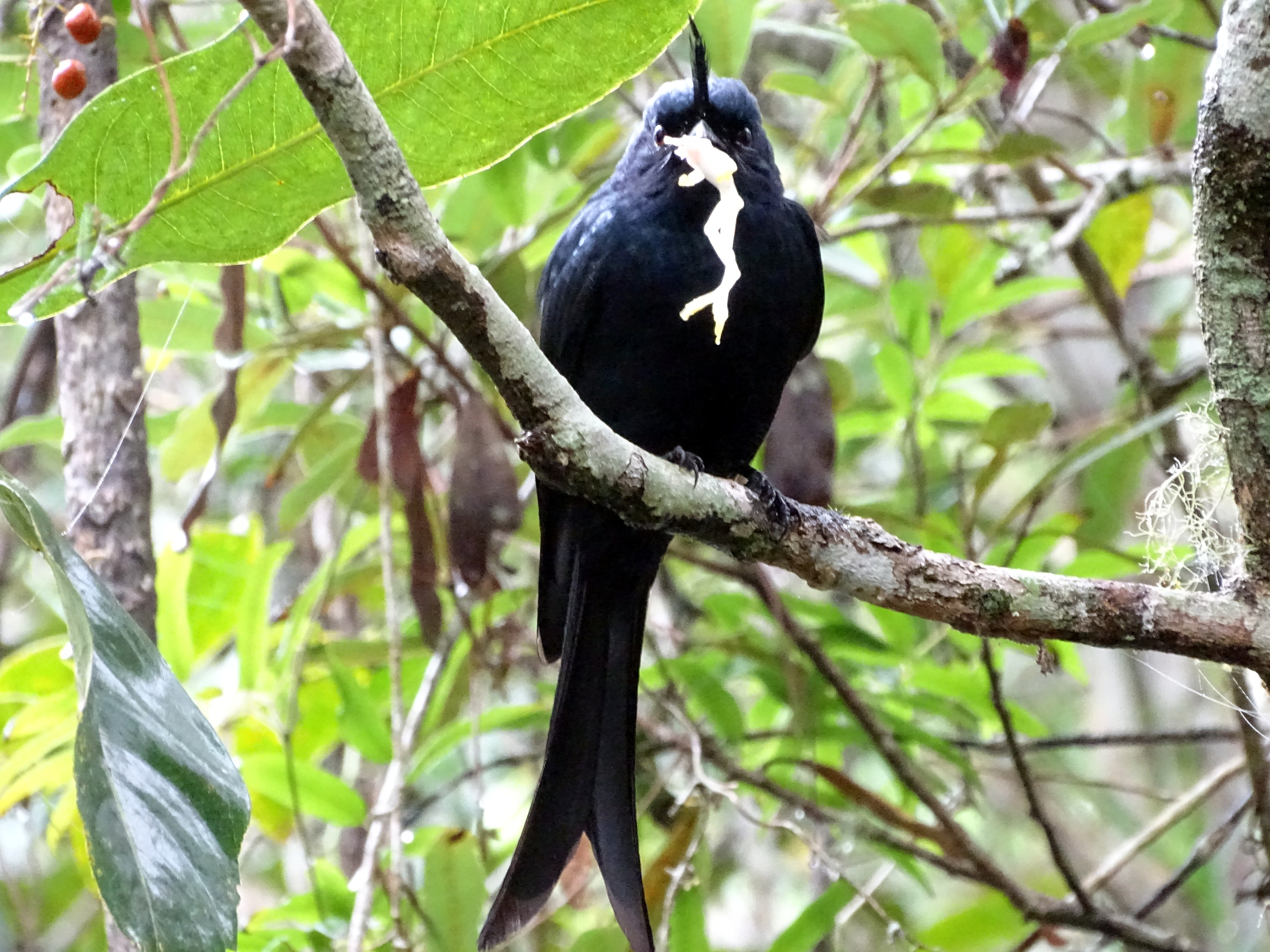 Crested drongo with a frog, Mantadia National Park, Madagascar